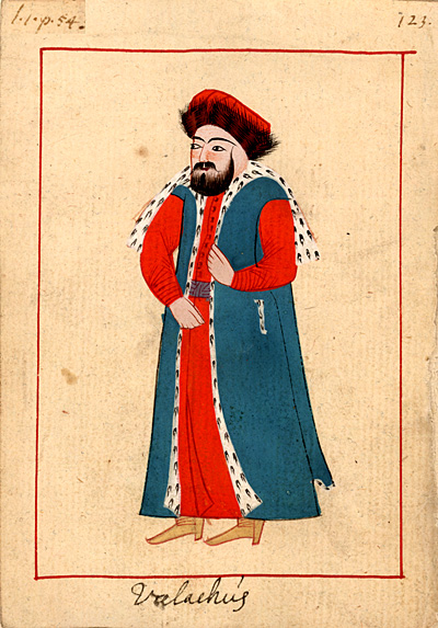 Military Pictures from the Ralamb Costume Book, 1657